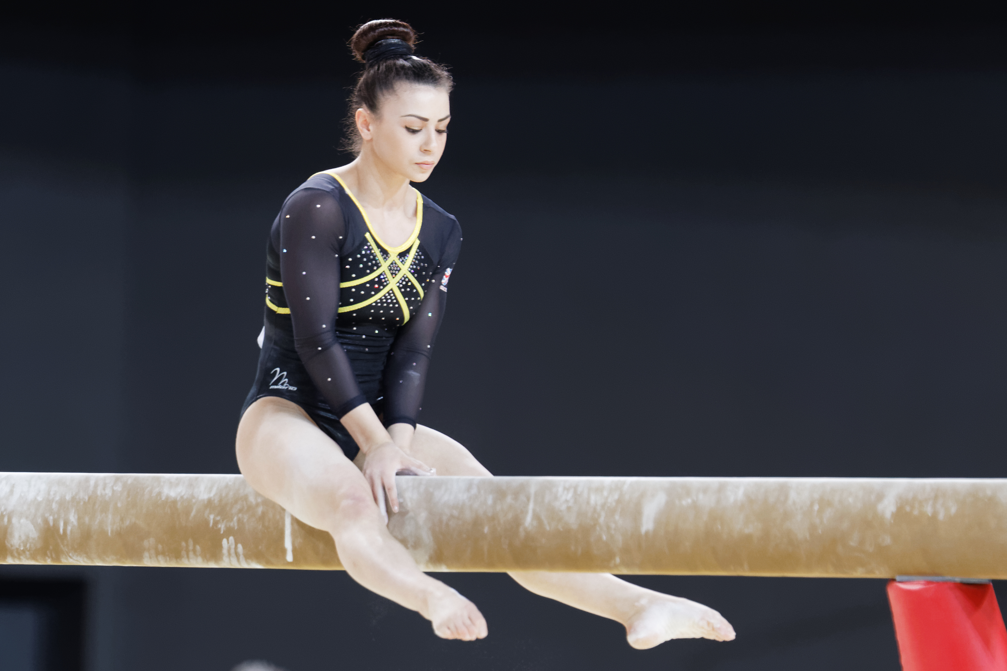 2015 European Artistic Gymnastics Championships. Bamance beam.